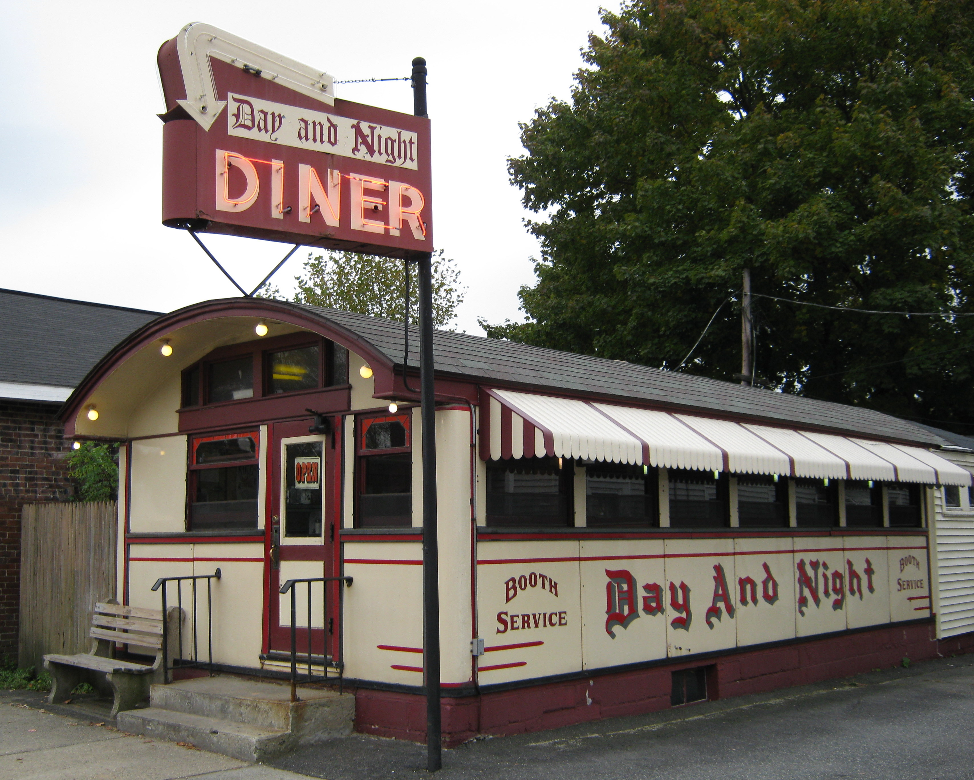 Day and Night Diner 1456 Main Street / Route 20 Palmer, Massachusetts Worcester Lunch Car Company #781, 1944